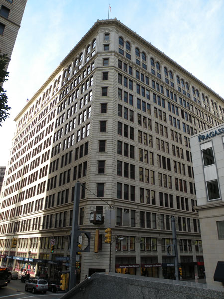 Picture of the Heinz 57 Center (formerly the Gimbel Brothers Department Store), located at 339 Sixth Avenue in Downtown Pittsburgh, Pennsylvania, on September 18, 2010. Built in 1914, architect Starrett & van Vleck, the building is on the List of Pittsburgh History and Landmarks Foundation Historic Landmarks.